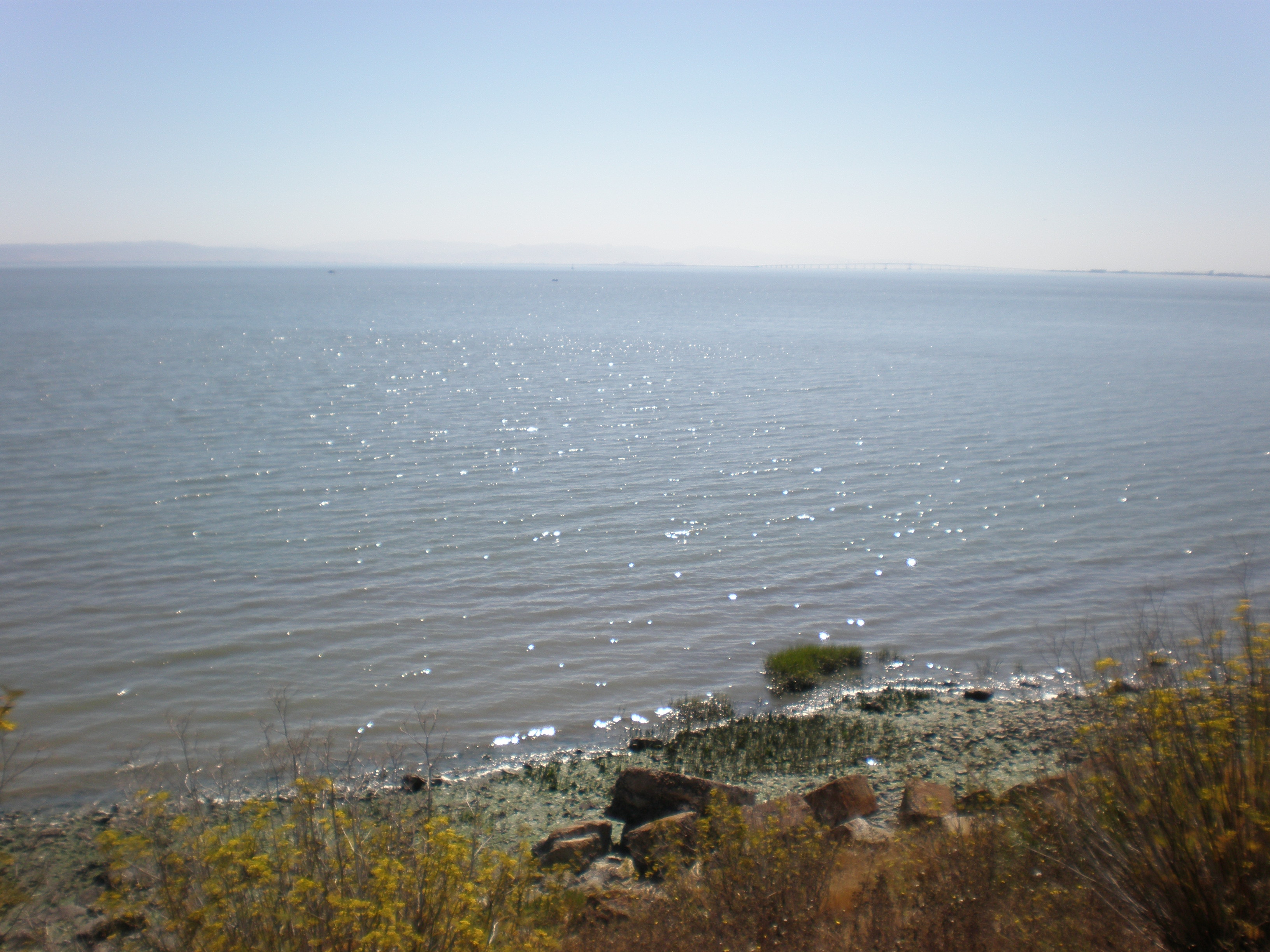 A section of the San Francisco Bay near the Genentech headquarters in South San Francisco, California.